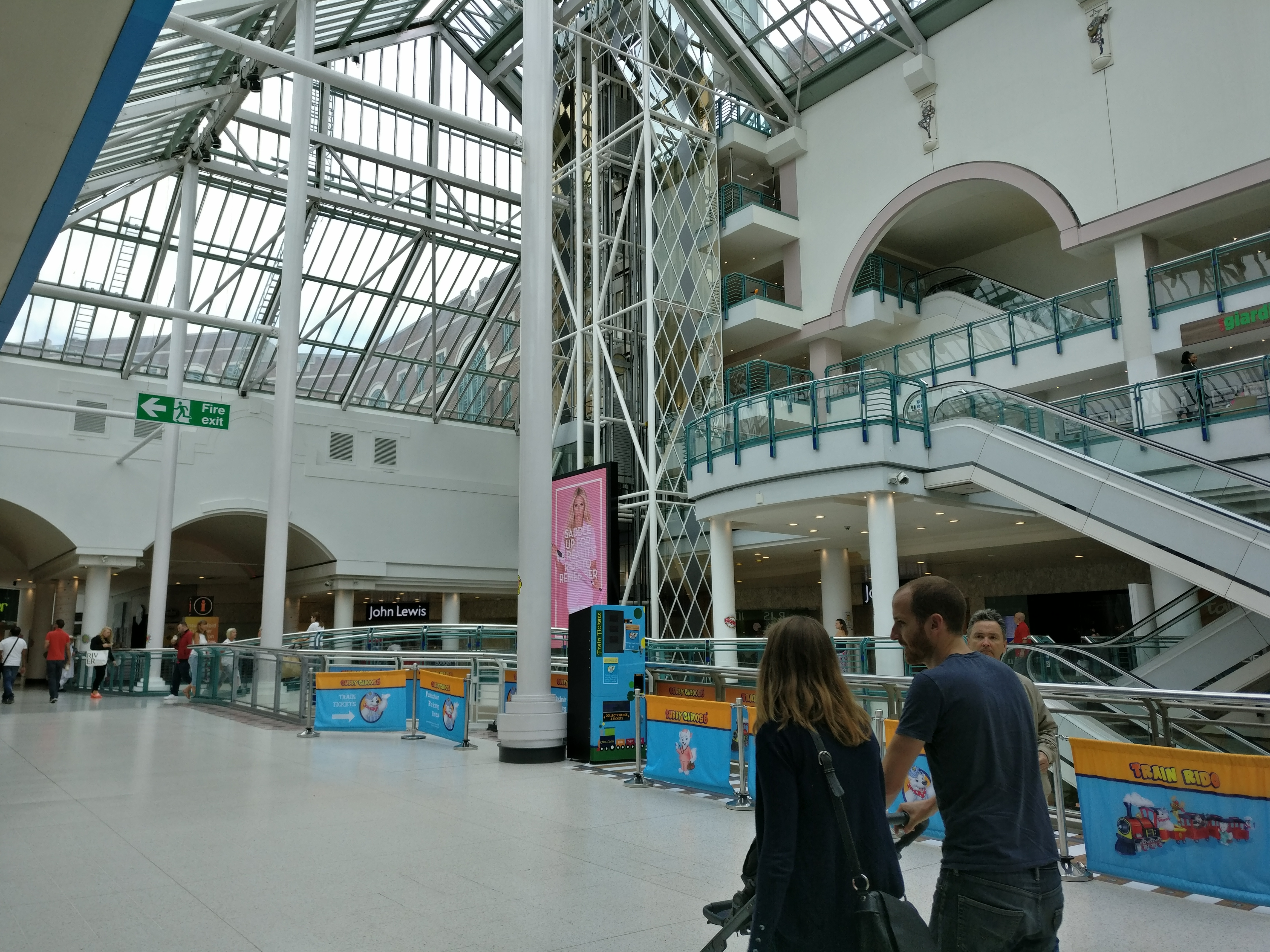 A lot of original features have been removed since it became an Intu centre. The plants, original decorations and lots of original paint has been lost.